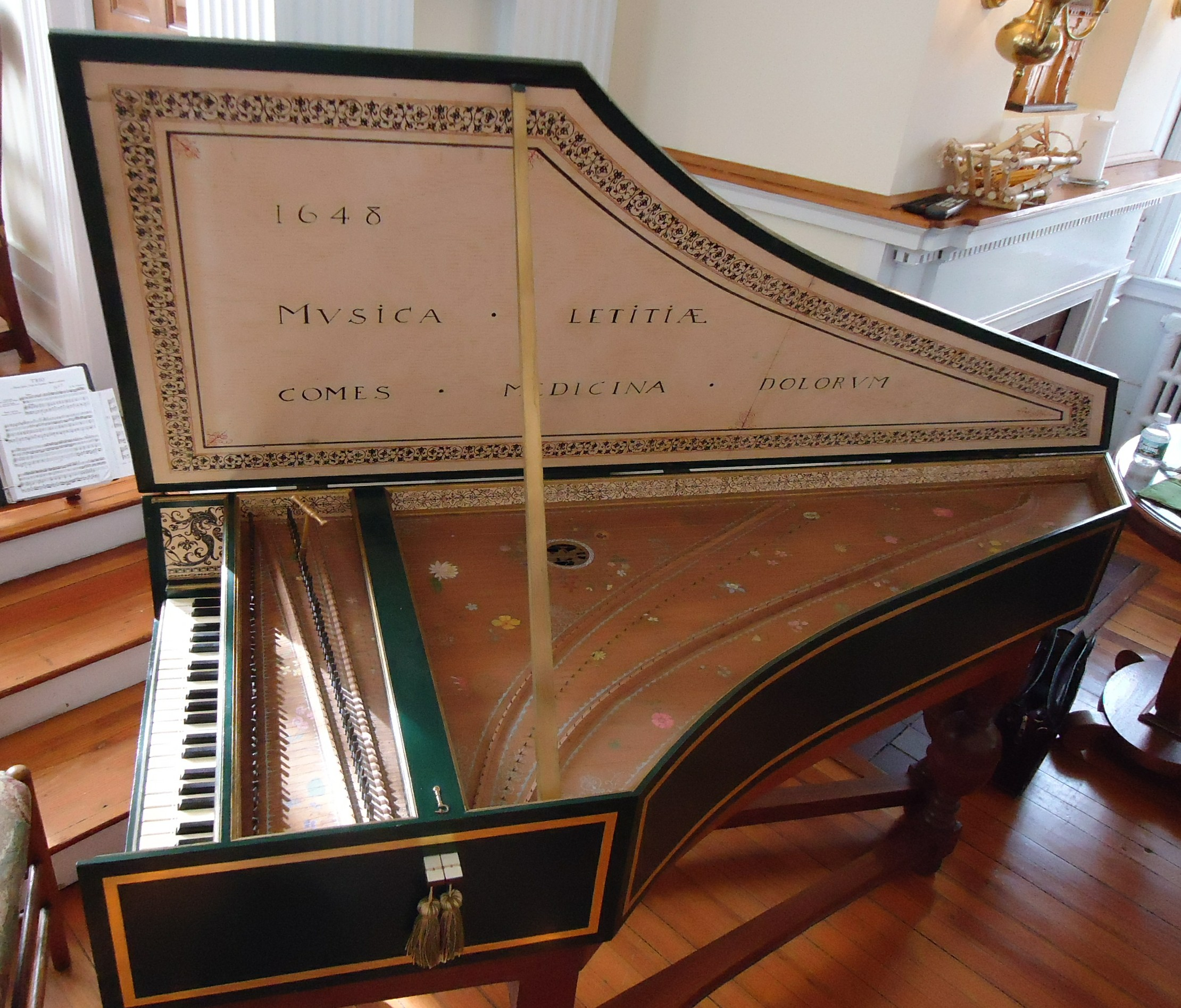 Harpsichord.